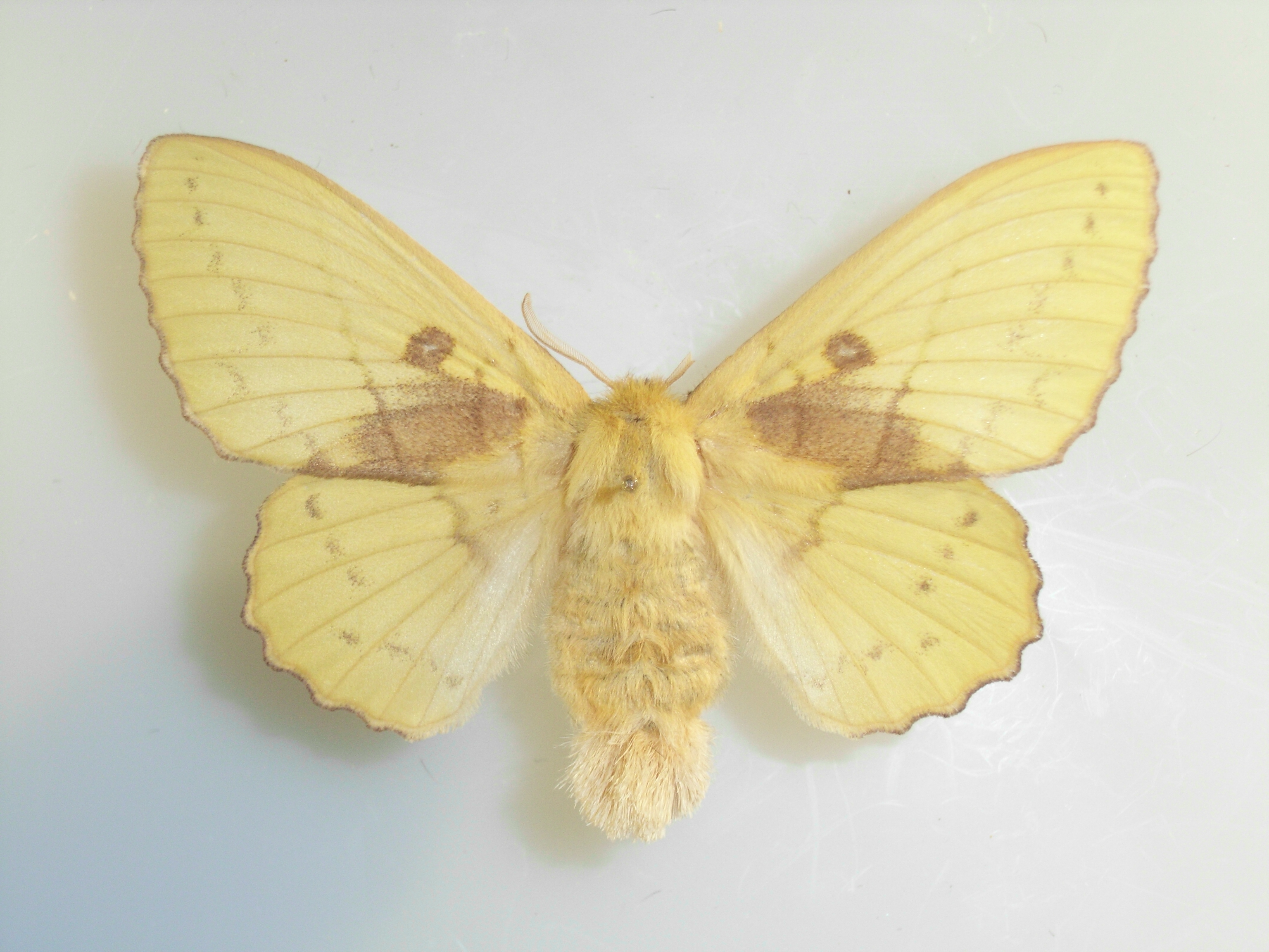 Trabala vishnou(Lefèbvre, 1827)Female Ex coll. Felix Stumpe